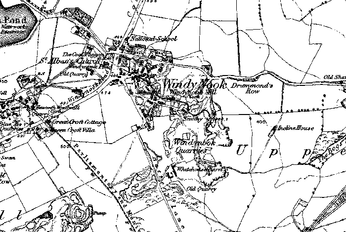 Windy Nook, Gateshead in 1862 as mapped by the Ordnance Survey Epoch Series.